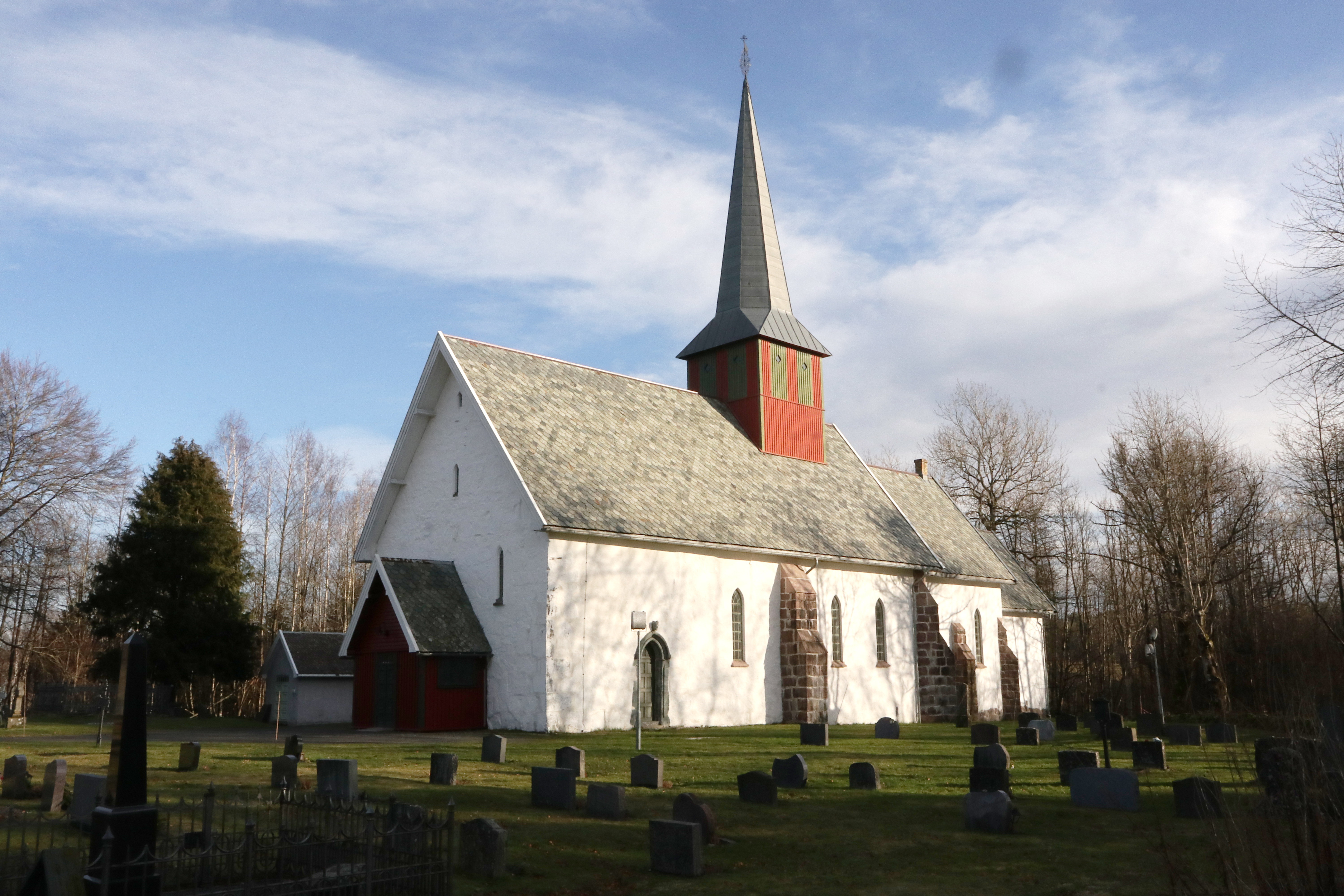 Øyestad church